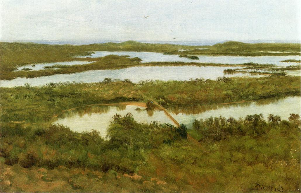 A River Estuary